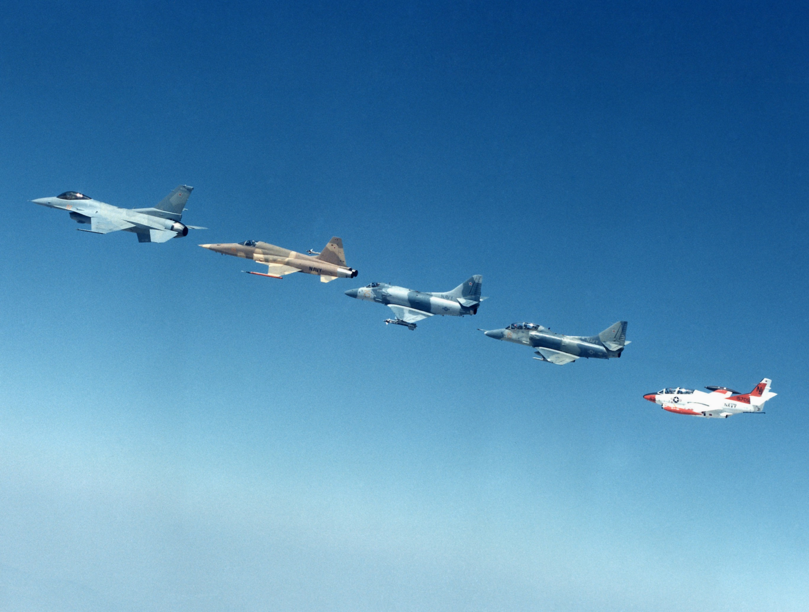 U.S. Navy fighter squadron VF-126 Bandits aircraft, based at Naval Air Station Miramar, California (USA), fly a trail formation on 14 September 1987 near San Diego, California: (l-r) General Dynamics F-16N Fighting Falcon, Northrop F-5E Tiger II, Douglas A-4E Skyhawk, TA-4J trainer, and a Rockwell T-2C Buckeye.